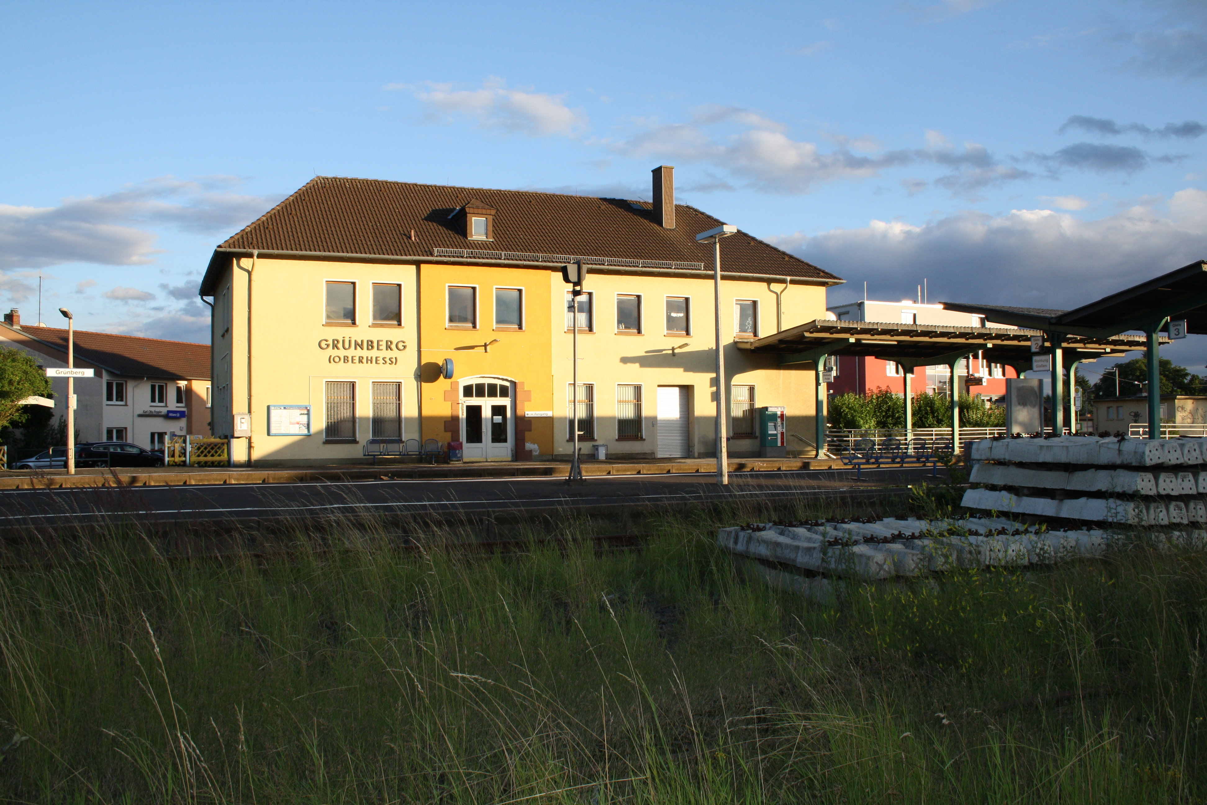 Station of Grünberg, July 2012